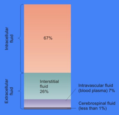 Own work